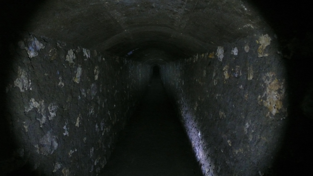 A tunnel under Paris. There are hundreds of kilometers of tunnels like this under Paris constituting a giant labyrinth.